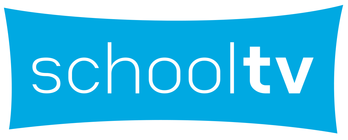 Schooltv logo